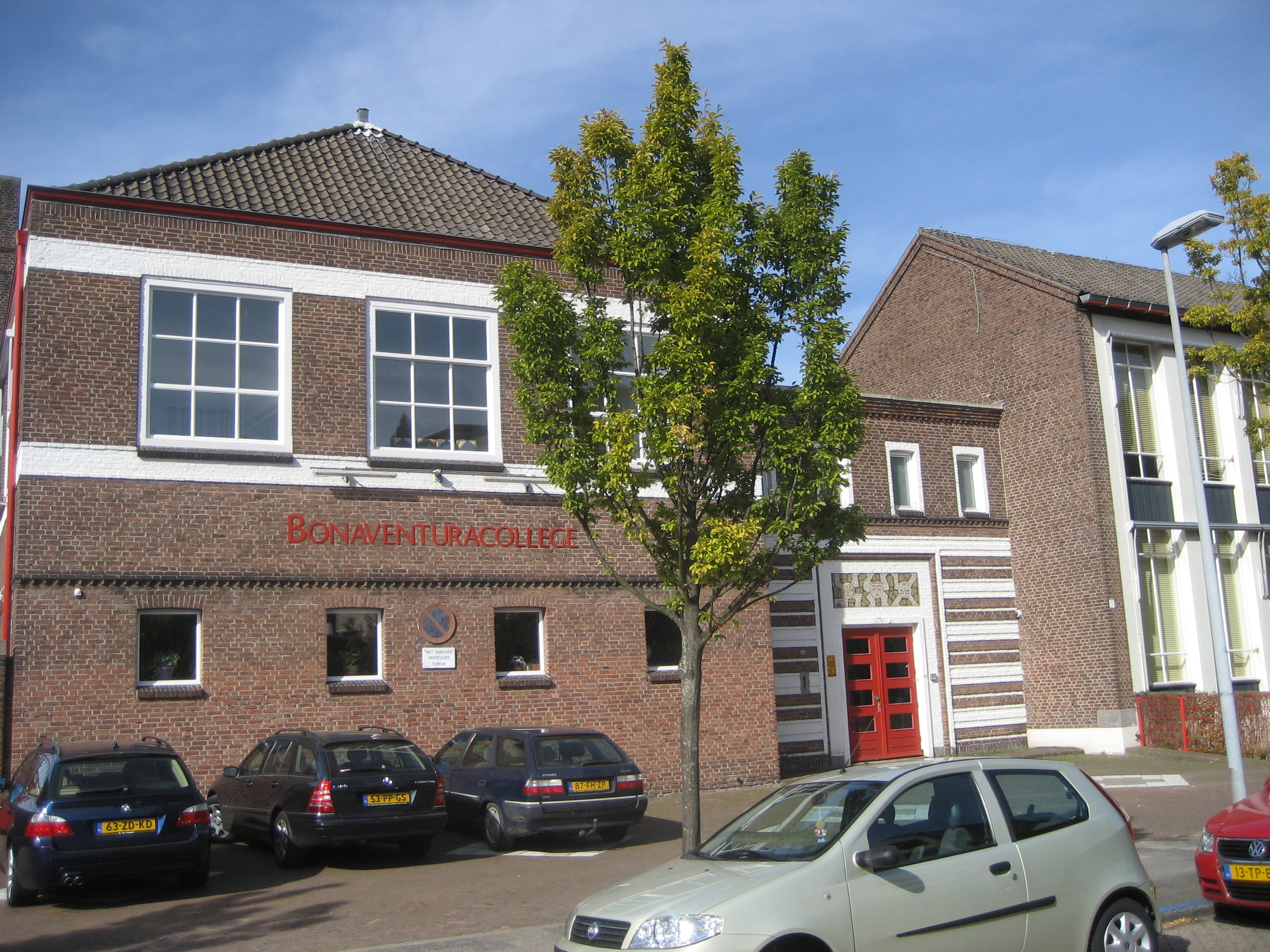 Bonaventuracollege, Boerhaavelaan 44, 2334 ER Leiden, The Netherlands. Former Don Bosco School. Architect: Jan van der Laan (1952).